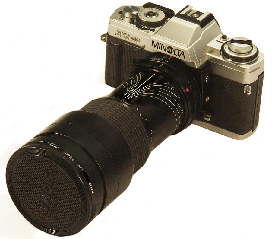 Minolta XG-M 35 mm film SLR camera with a non-stock lens. I shot the photo with a polariser and studio lights.